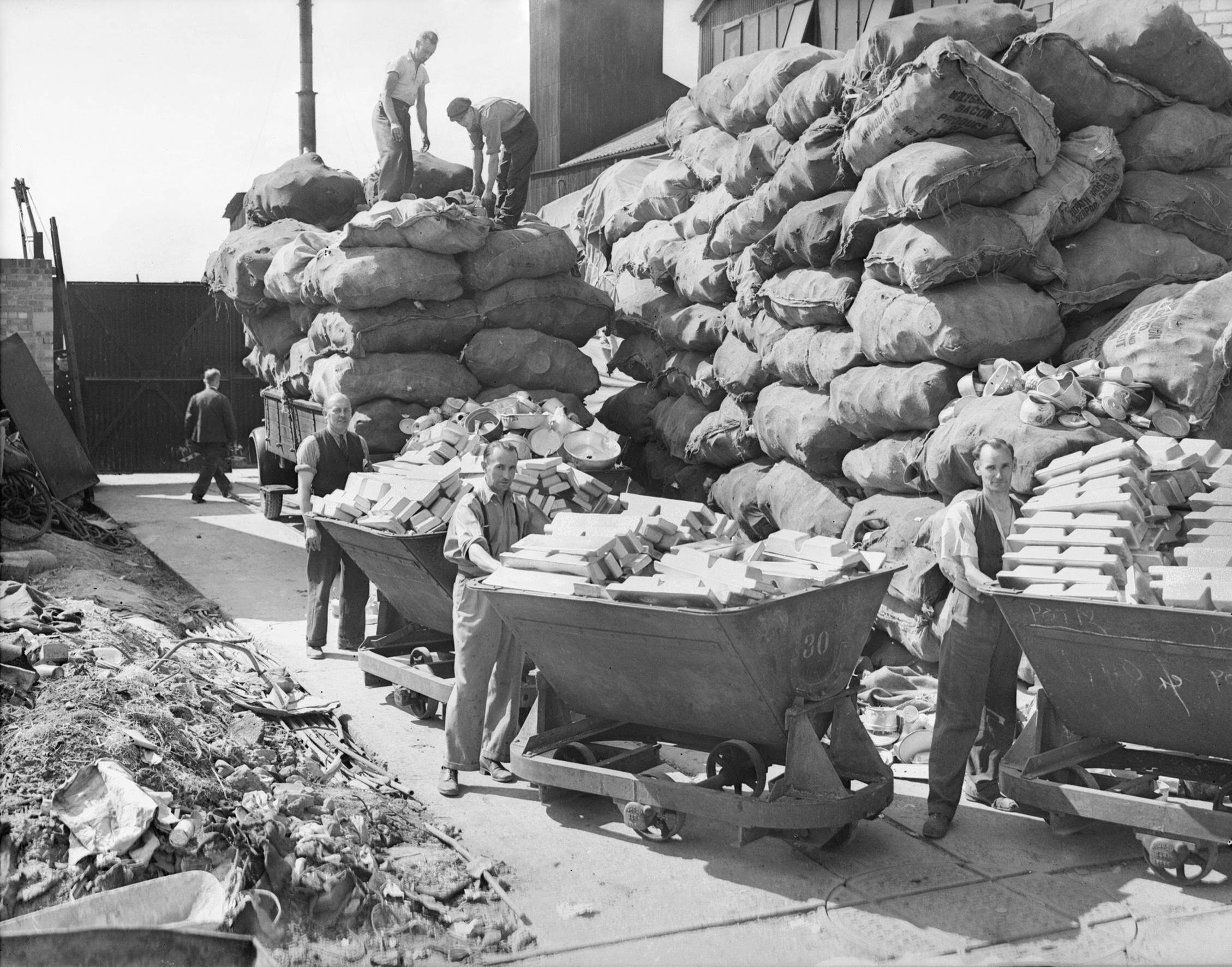 Saucepans Into Spitfires- Aluminium Salvage in Britain, 1940 Metal workers wheel large barrows full of ingots of pure aluminium from a workshop, somewhere in Britain. In the background, huge piles of sacks of aluminium items can be seen, from which workers select further items for smelting.